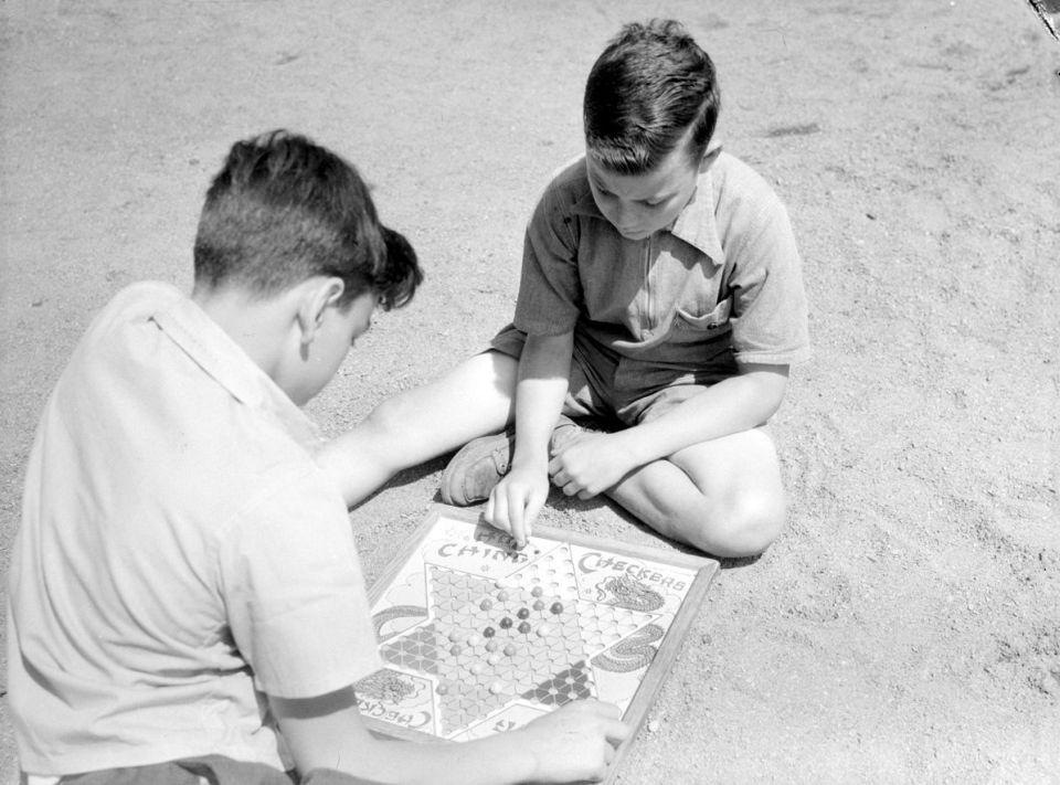 Two boys, David Shefler and John Hennessey, playing to "Hop Ching Checkers" (Chinese checkers) in MacDonald Park Summer Camp, Montreal.